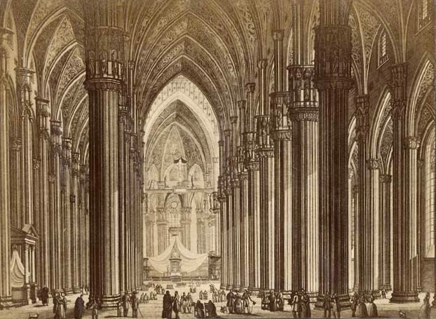 Milan - Inside view of the Cathedral.